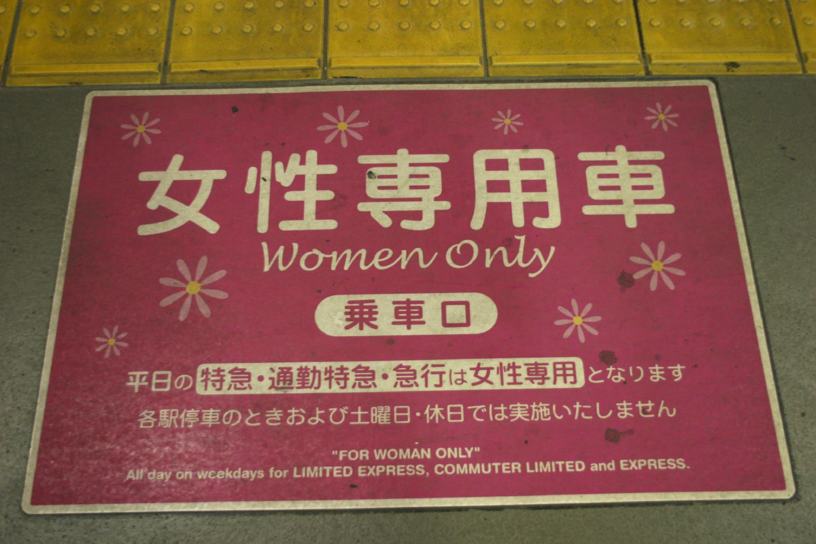 Sign at boarding area for women-only passenger car on Japanese commuter railWomen Only